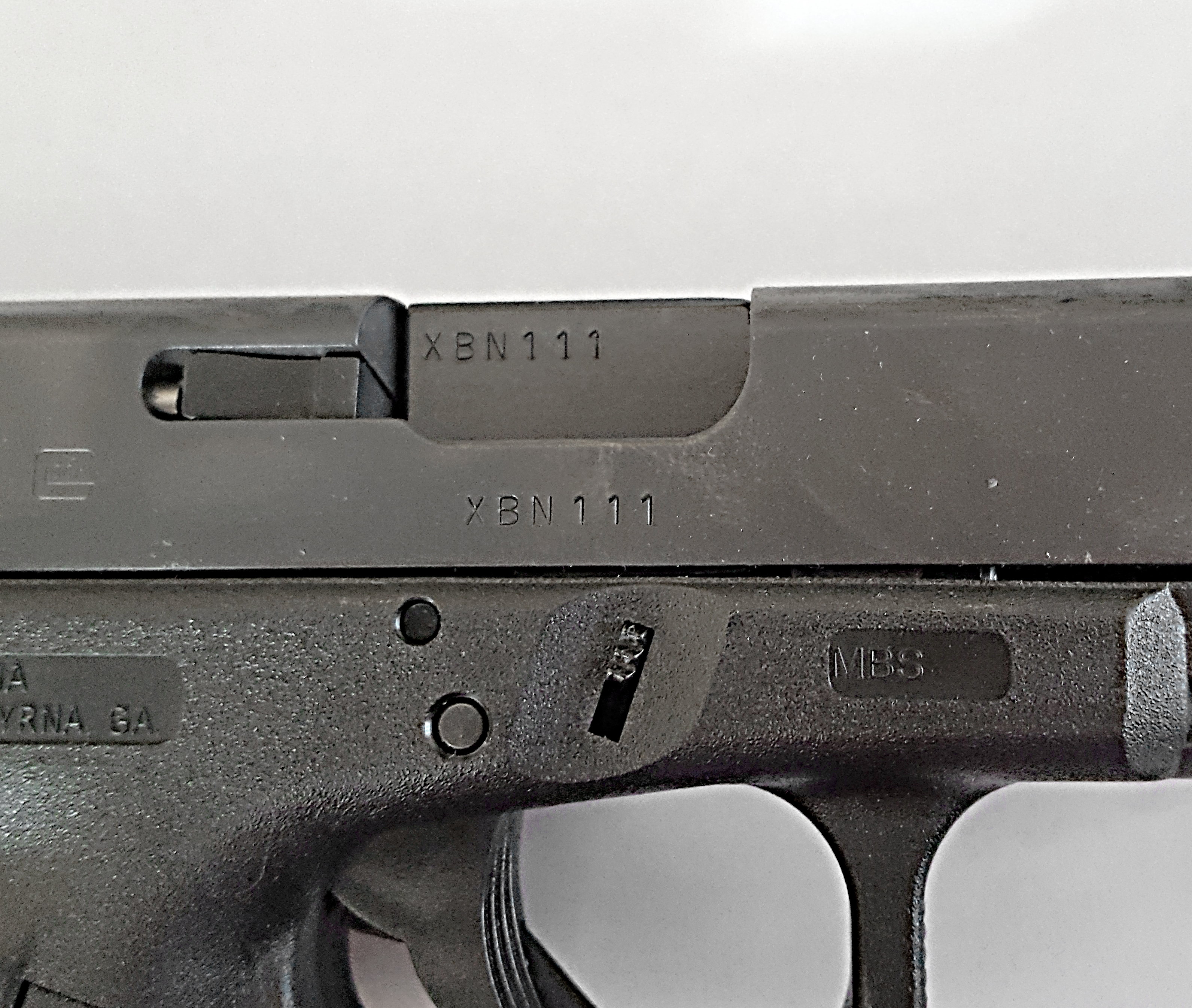 Closeup of serial number on a gun.